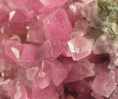 Calcite (Var.: Cobaltoan Calcite) Locality: Bou Azzer, Bou Azzer District, Tazenakht, Ouarzazate Province, Souss-Massa-Draâ Region, Morocco (Locality at ) Size: 12.4 x 8.8 x 7.2 cm. This largish chunk of matrix is richly covered with cobaltoan calcite. Some of the crystals are sheared off at the level of the matrix, but one three-inch area is full of superb, bright pink, translucent, BIG crystals to almost a centimeter! They have perfect form and pyramidal terminations. They almost look trigonal, which would be totally bizarre, but there are in fact 6 faces around the sides if you look closely - 3 of them are small and appear almost as bevels.